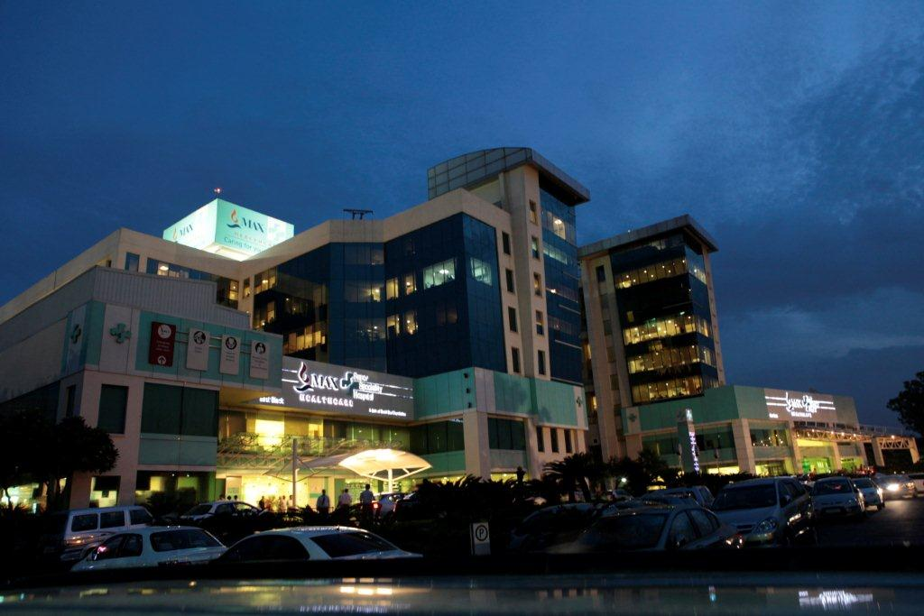 This is an image containing max healthcare hospital in Delhi.